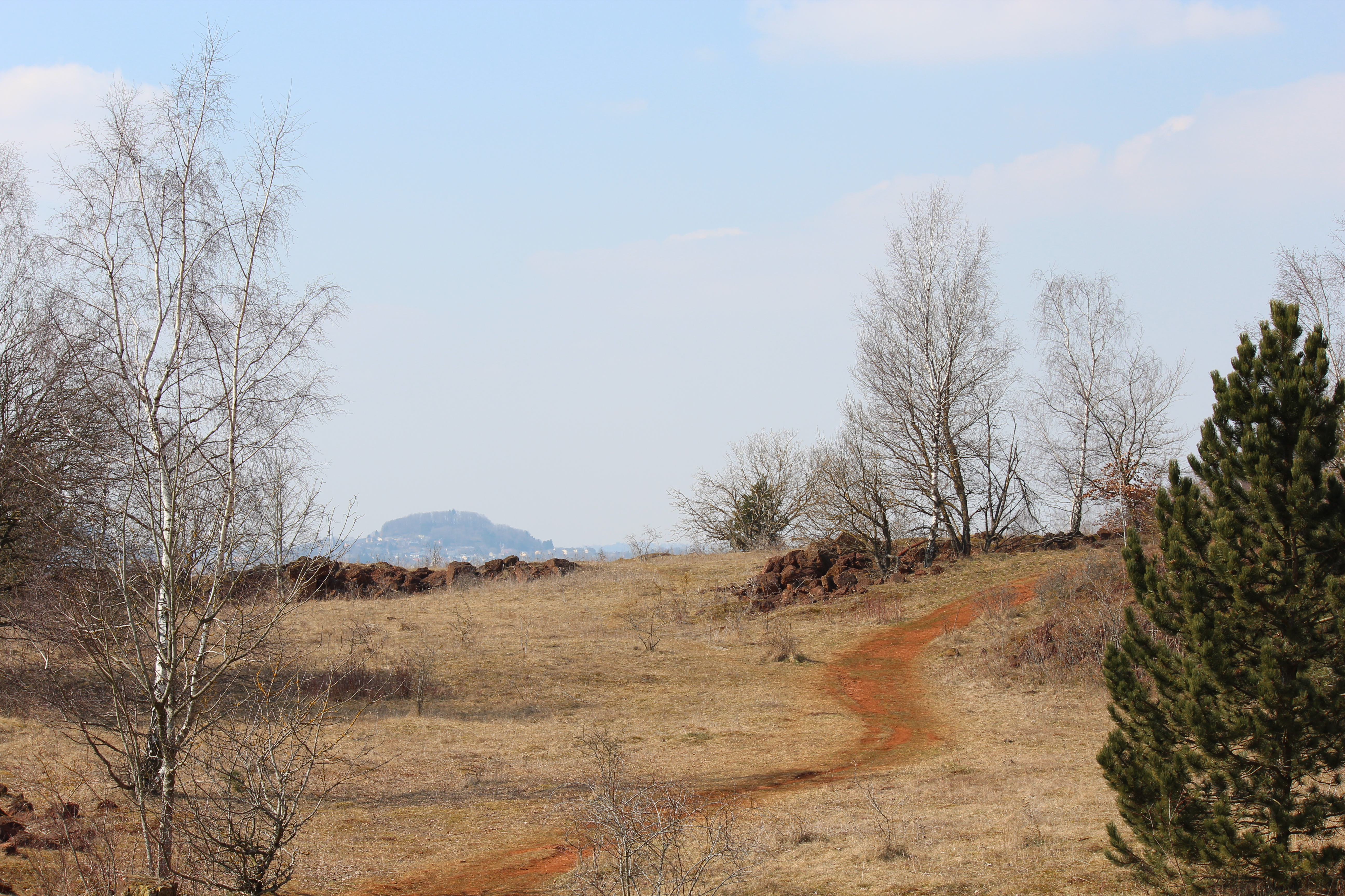 Landscape on Lallenger Bierg, between Esch-sur-Alzette and Schifflange, in the "Red Lads", South of Luxembourg. On the horizon: Zolwer Knapp.